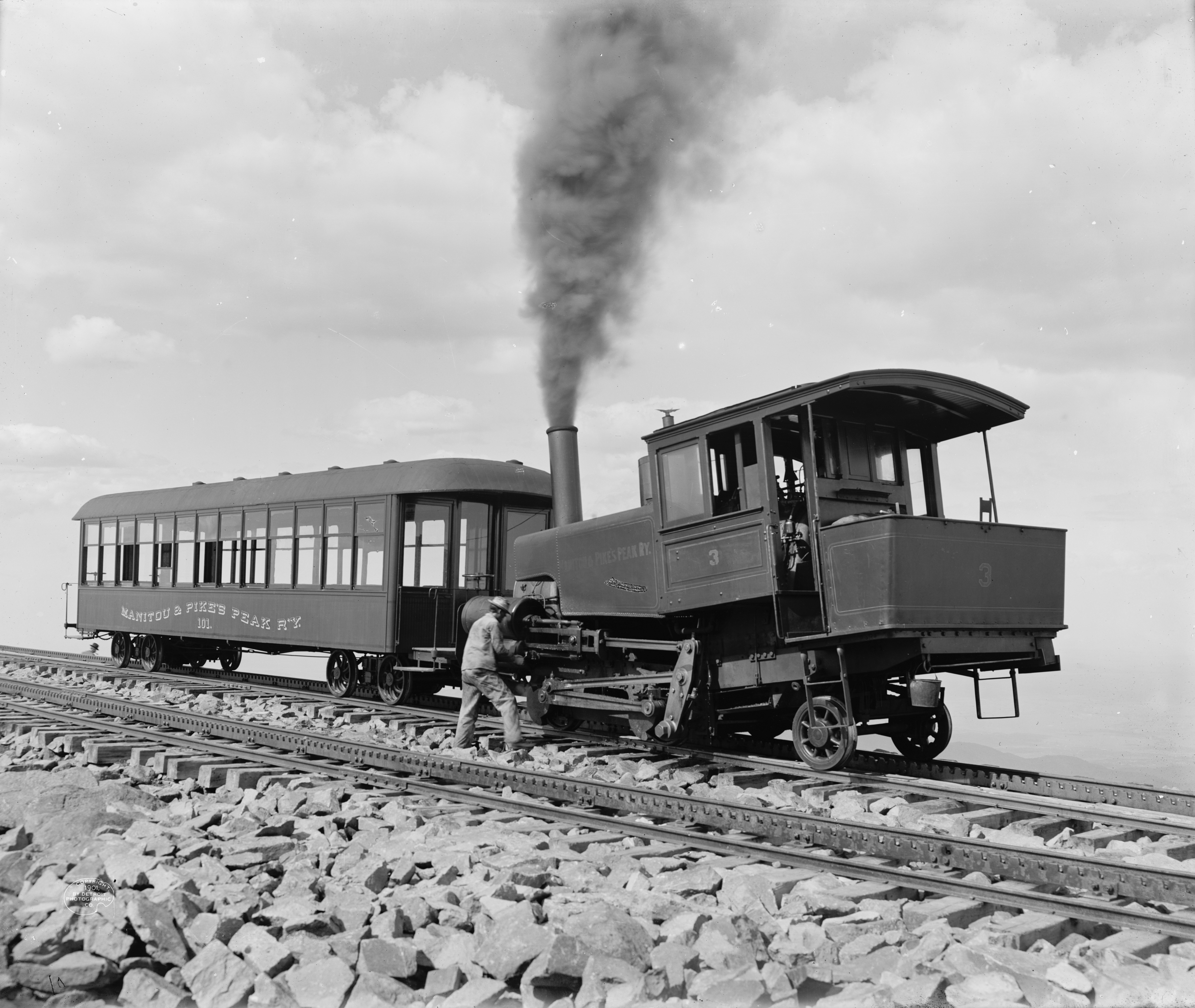 Summit, cog wheel train, Manitou and Pike's Peak Railway, Colo.] Medium: 1 negative : glass ; 8 x 10 in. Part of: Detroit Publishing Company Photograph Collection Reproduction Number: LC-D4-13812 (b&w glass neg.) Call Number: LC-D4-13812 [P&P] Repository: Library of Congress Prints and Photographs Division Washington, D.C. 20540 USA Notes: Title and date from Detroit, Catalogue J Supplement (1901-1906). "WHJ 371" on negative. Detroit Publishing Co. no. 013812. Gift; State Historical Society of Colorado; 1949.